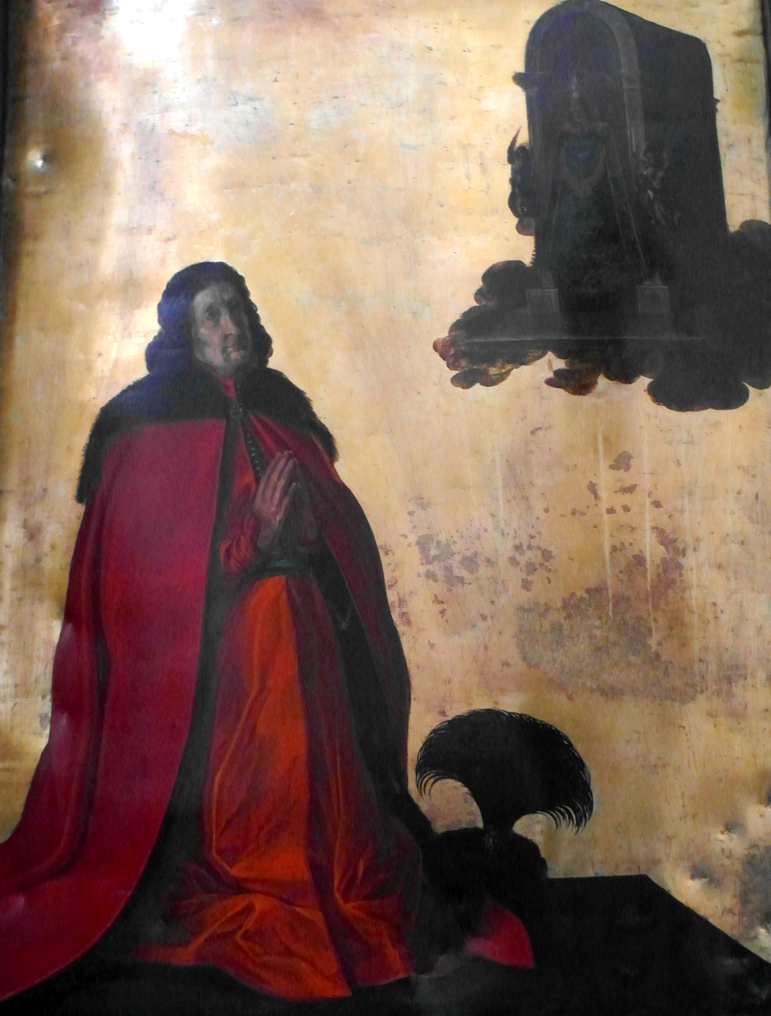 Andrzej Czarnecki epitaph in the Saints Peter and Paul Church, Kraków